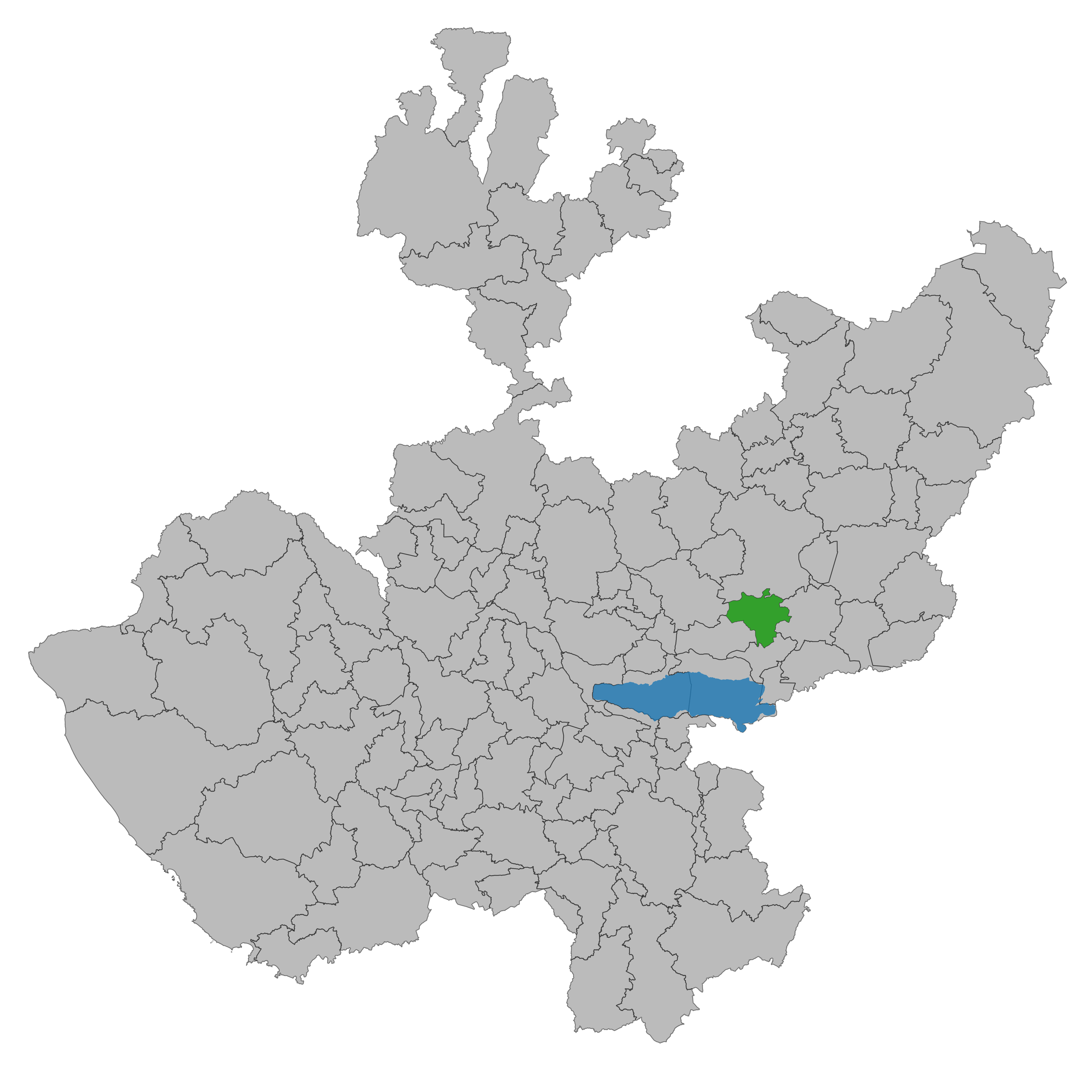 Municipality of Jalisco. Prepared with the software QGIS version 2.8.2 Wien & with information of SCINCE 2010 version 05/2013